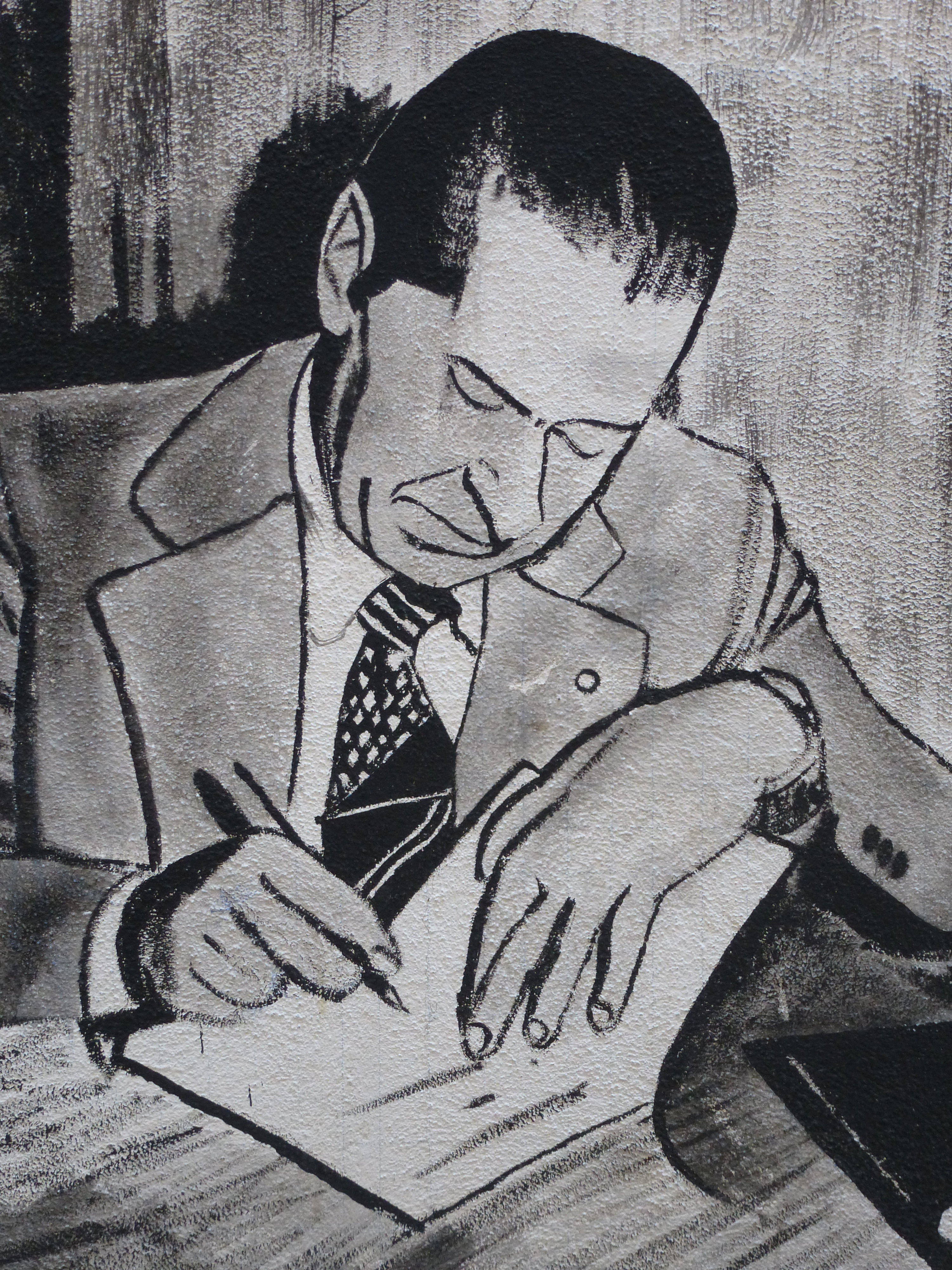 Detall del mural d'en Gabriel Mora i Arana